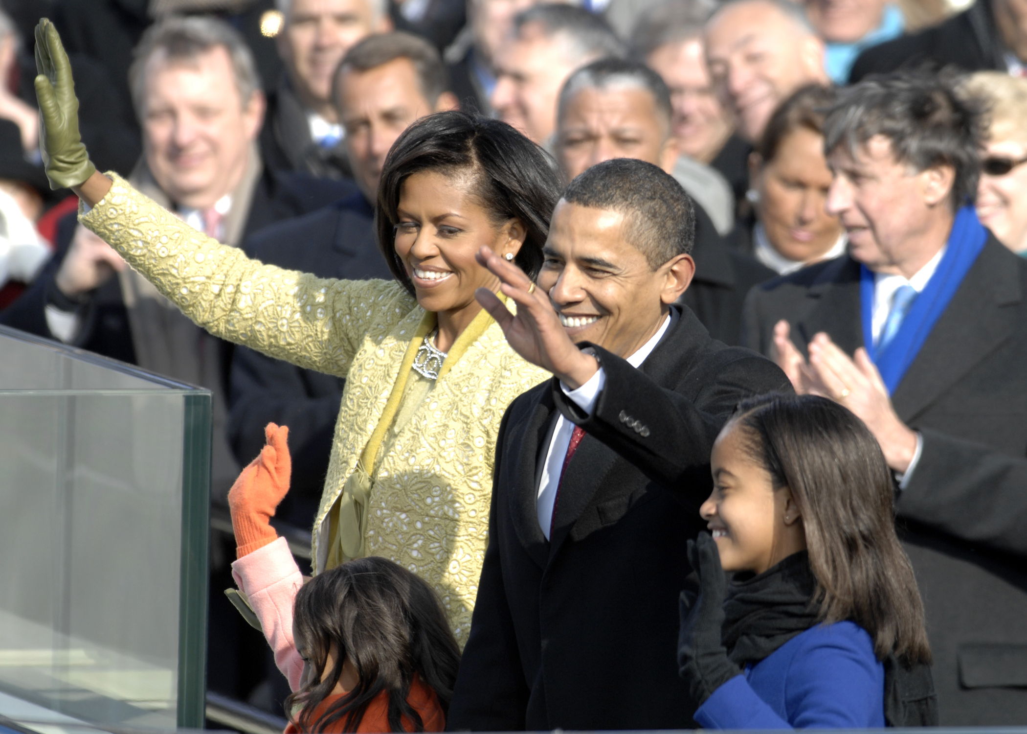 President Barack Obama, first lady Michelle, and daughters Malia and Sasha wave to the crowd after his inaugural address Jan. 20, 2009, on the west steps of the U.S. Capitol.